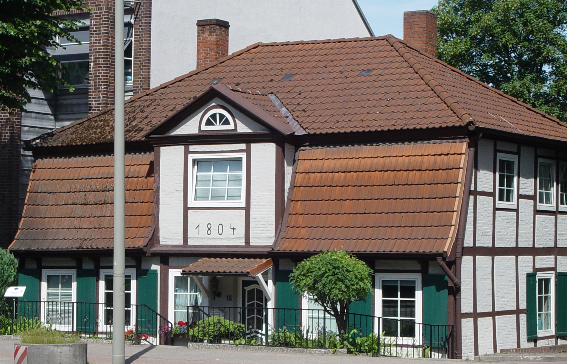 Germany, Hamburg, formerly oldest house in the quarter of Lokstedt.